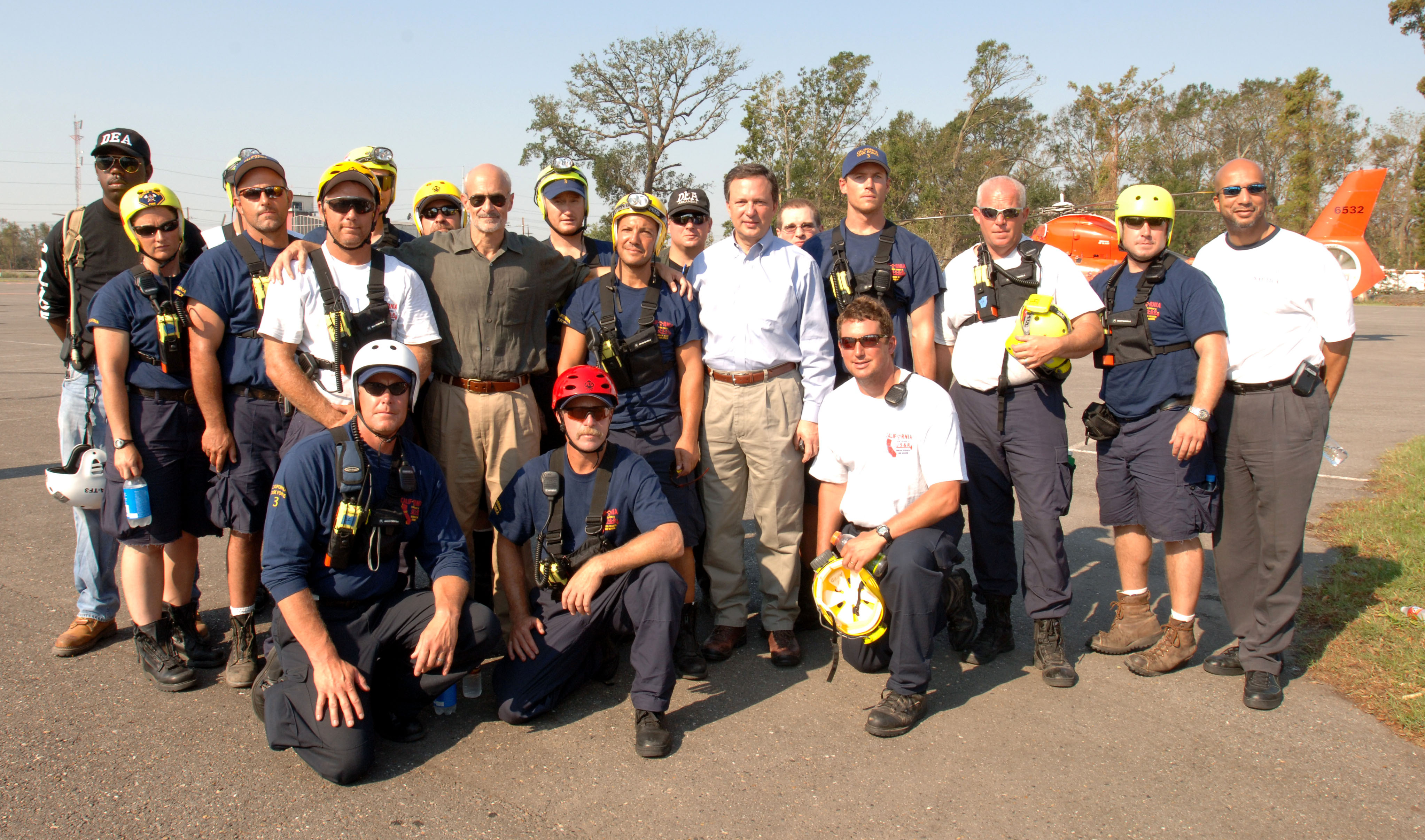 New Orleans, LA, September 4, 2005 -- Michael D. Brown (second row, fourth from left), Department of Homeland Security’s Principal Federal Official for Hurricane Katrina and Michael Chertoff (second row, second from left), Secretary of Homeland Security have their photograph made with Urban Search and Rescue Force 1 members.